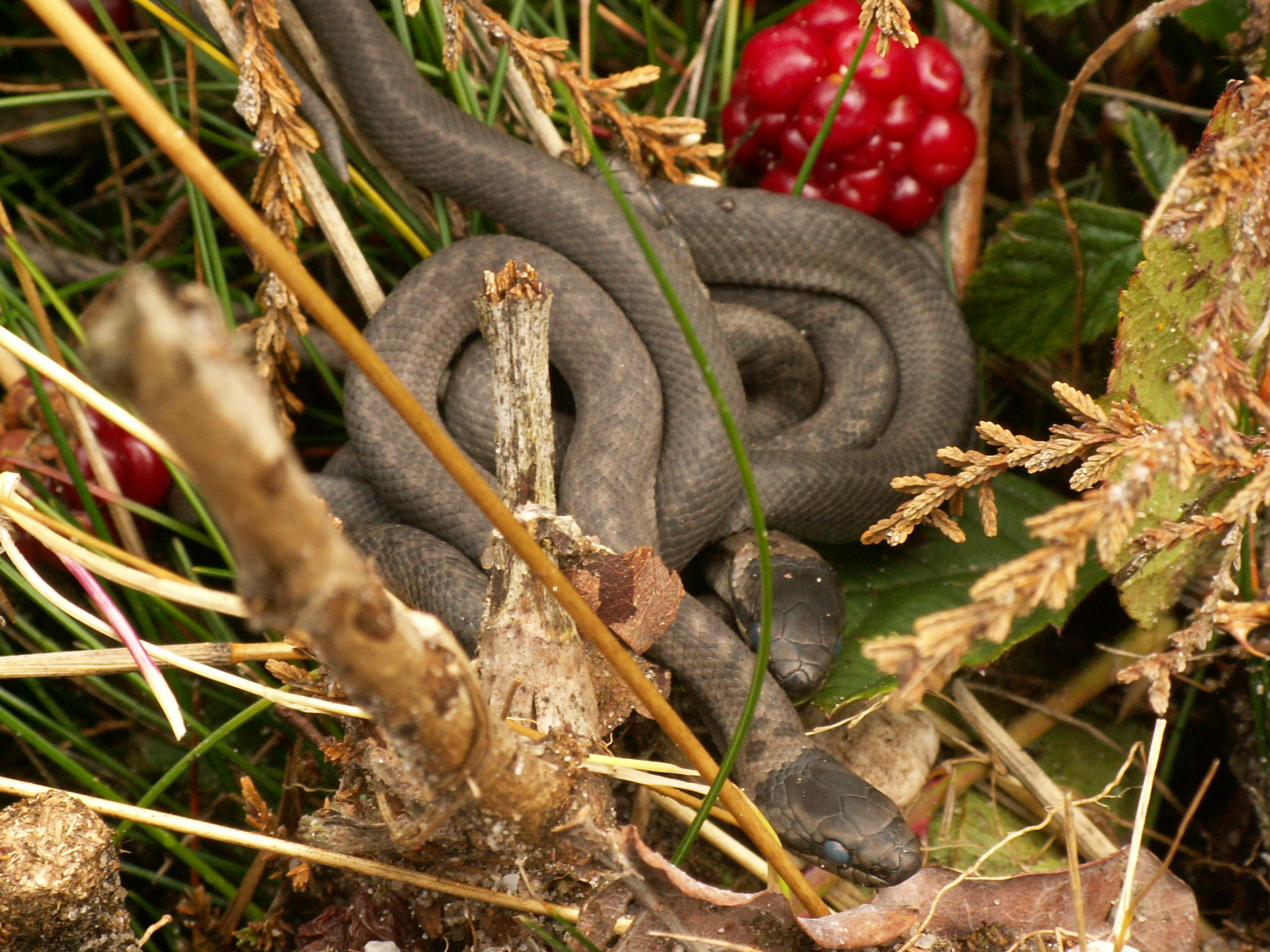 Newly hatched smooth snakes (Coronella austriaca) Netherlands, in a few days day will shed their skin.